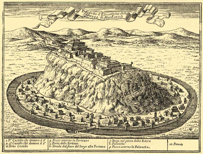 Castle Mukachevo (Palanok castle) in 17th century